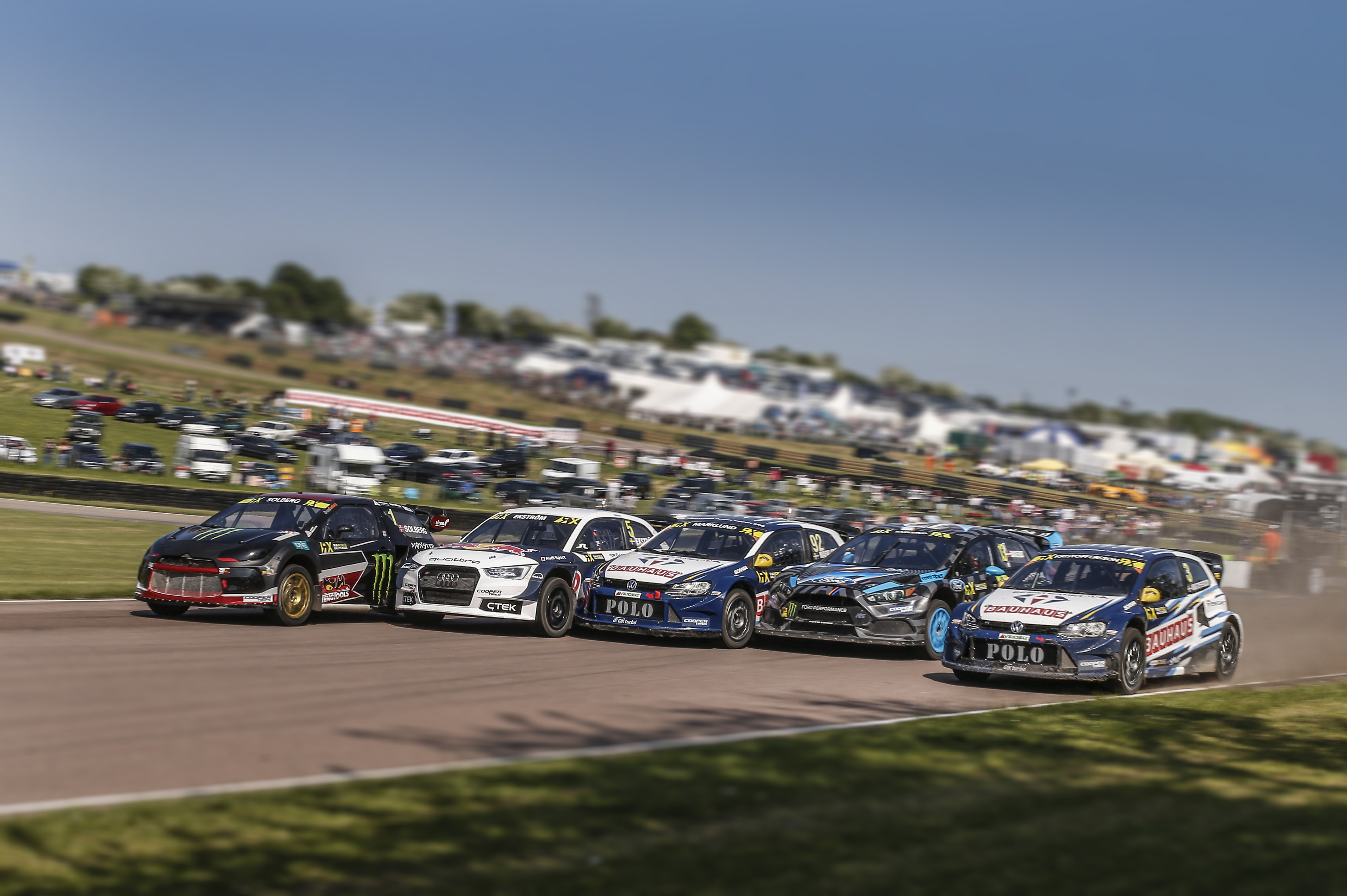 2016 FIA World Rallycross Championship / Round 04, Lydden Hill, GB / May 27 - 29 2016 // Worldwide Copyright: Tony Welam/EKS/McKlein